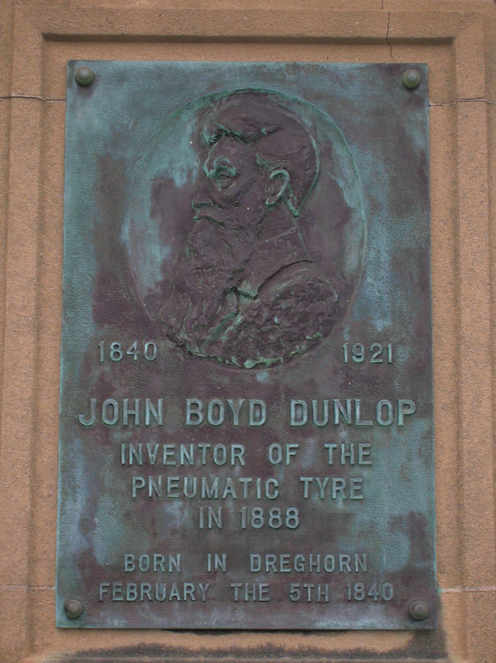 A memorial plaque to John Boyd Dunlop at Dreghorn in North Ayrshire.